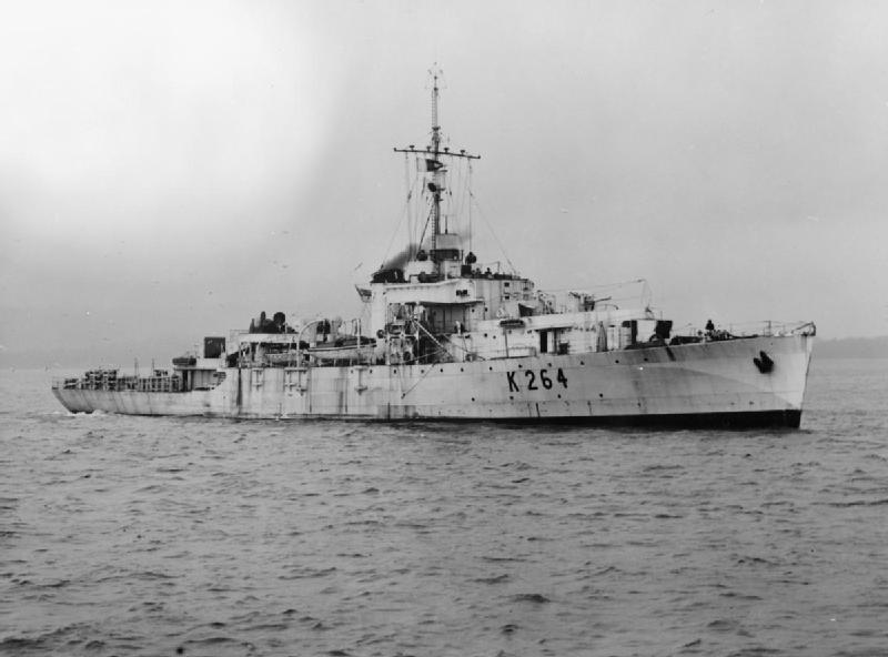 Photograph of River class frigate HMS Cam.